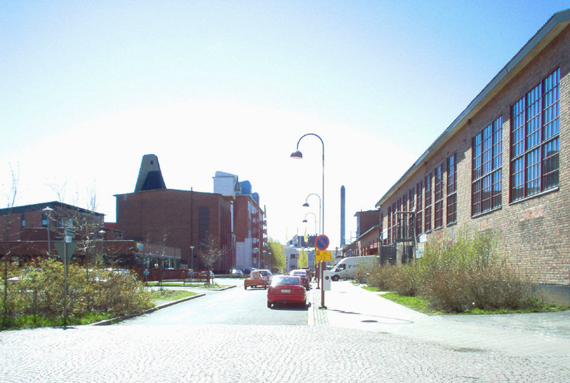 Meritoppila, Oulu, Finland